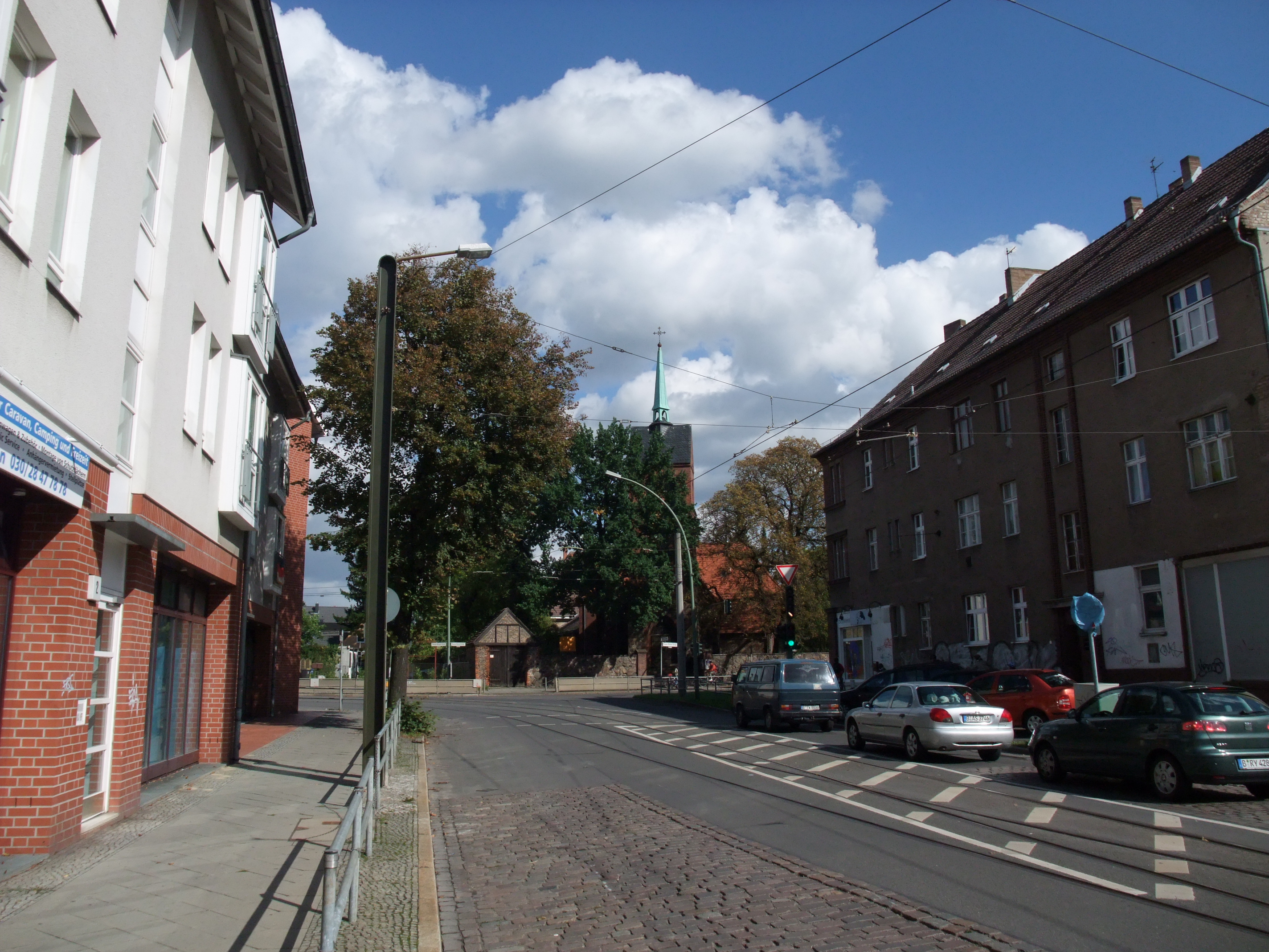 Village church from southwest, Berlin-Heinersdorf, Germany